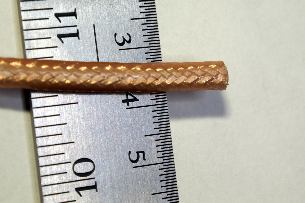 Photo of RG-142 Coaxial cable